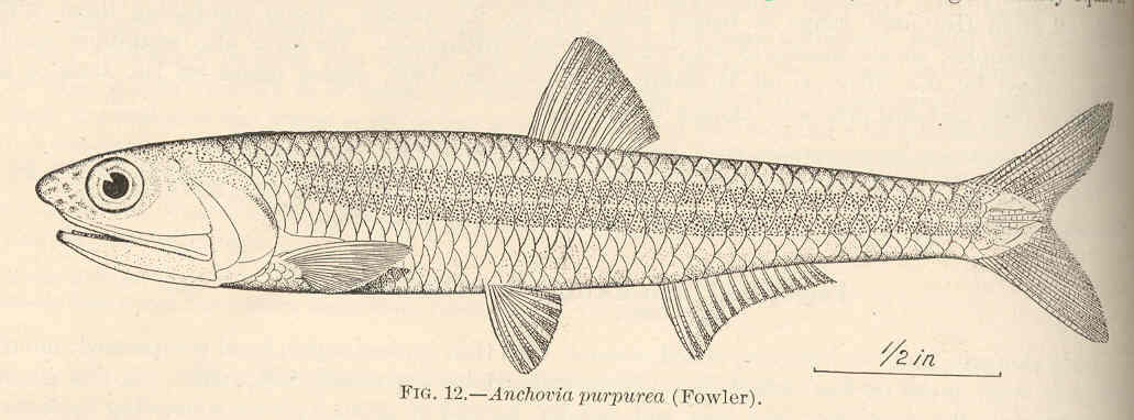 Anchovia purpurea (Fowler) Subject: Anchovies Tag: Fish